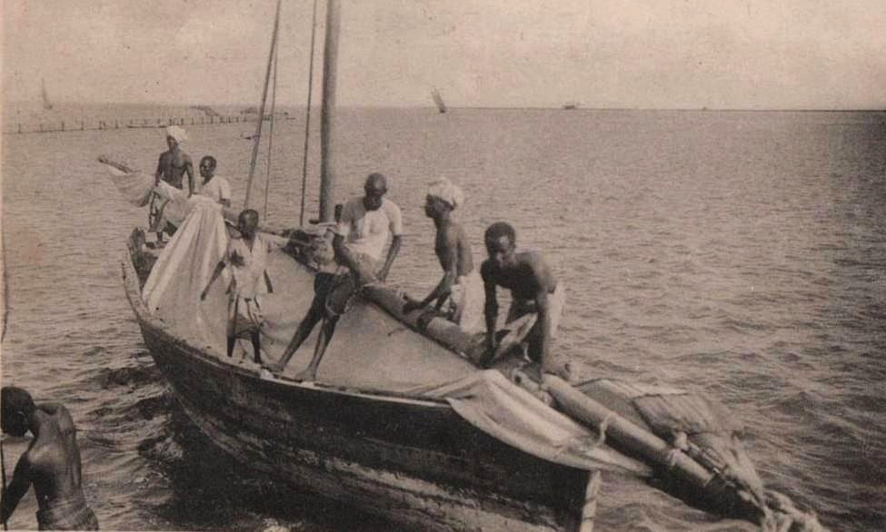 Djibouti. Dhow on arrival, c. 1915-1925. Postcard.